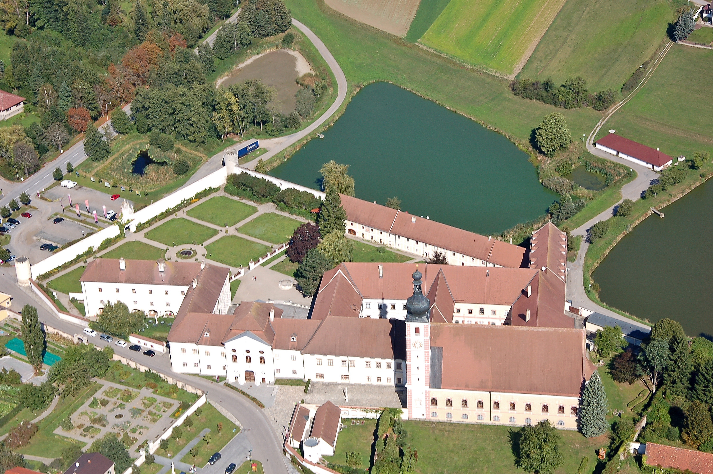 Gesamtanlage Stift Geras